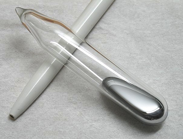 Mercury metal in an ampoule